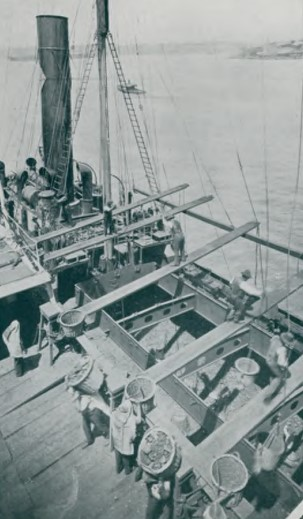 Shows gangs of 'coal lumpers' coaling a ship in Sydney Harbour, from the hold of the 'sixty-miler' SS Belambi in 1909. Baskets are filled in the hold and hoisted up to the level of the 'plankman' who walks the suspended basket over rail of the ship being coaled from where it is carried to the bunker chutes and tipped into the coal bunkers. The baskets when full weighed about 100kg. The work was arduous and very dangerous but highly paid.